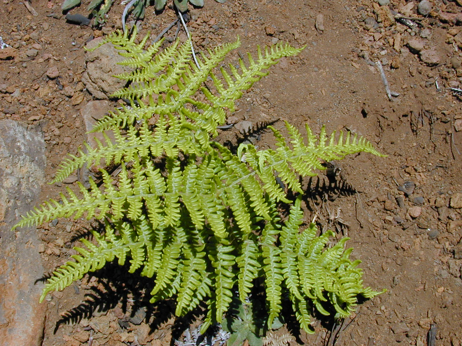 Pteridium aquilinum var. decompositum (Frond). Location: Maui, Polipoli